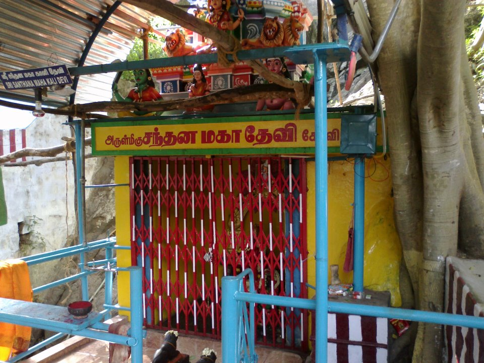 Santhana Mahadevi Temple at Santhana Mahalingam Temple, Sathuragiri Hills